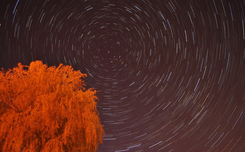 Star Trail above Beccles, near to Gillingham, Norfolk, Great Britain. My last trail (image) was taken in an area with large skies and less light pollution. However I decided to venture out for a little while at Beccles Quay near to midnight and try a star trail here. The street lights highlighted the tree to make it look as if it were dead! However, I can inform you it is green and alive in real life TM4291 : Beccles Quay. I had learnt from last time and brought a stopwatch, meaning even pictures of the same quailty. Twenty photos one and a half minutes long stitched together to give this effect. The faint streak above Polaris (the centre star) is a plane, sadly not a meteor.